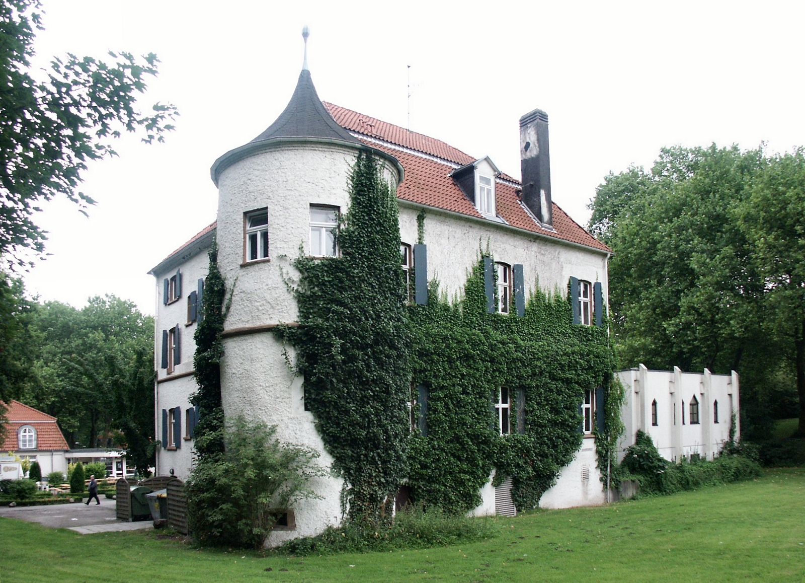 Haus Goldschmieding in Castrop Rauxel, north-eastern aspect